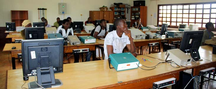 Travaux Pratiques Faculté des Sciences et Technologies